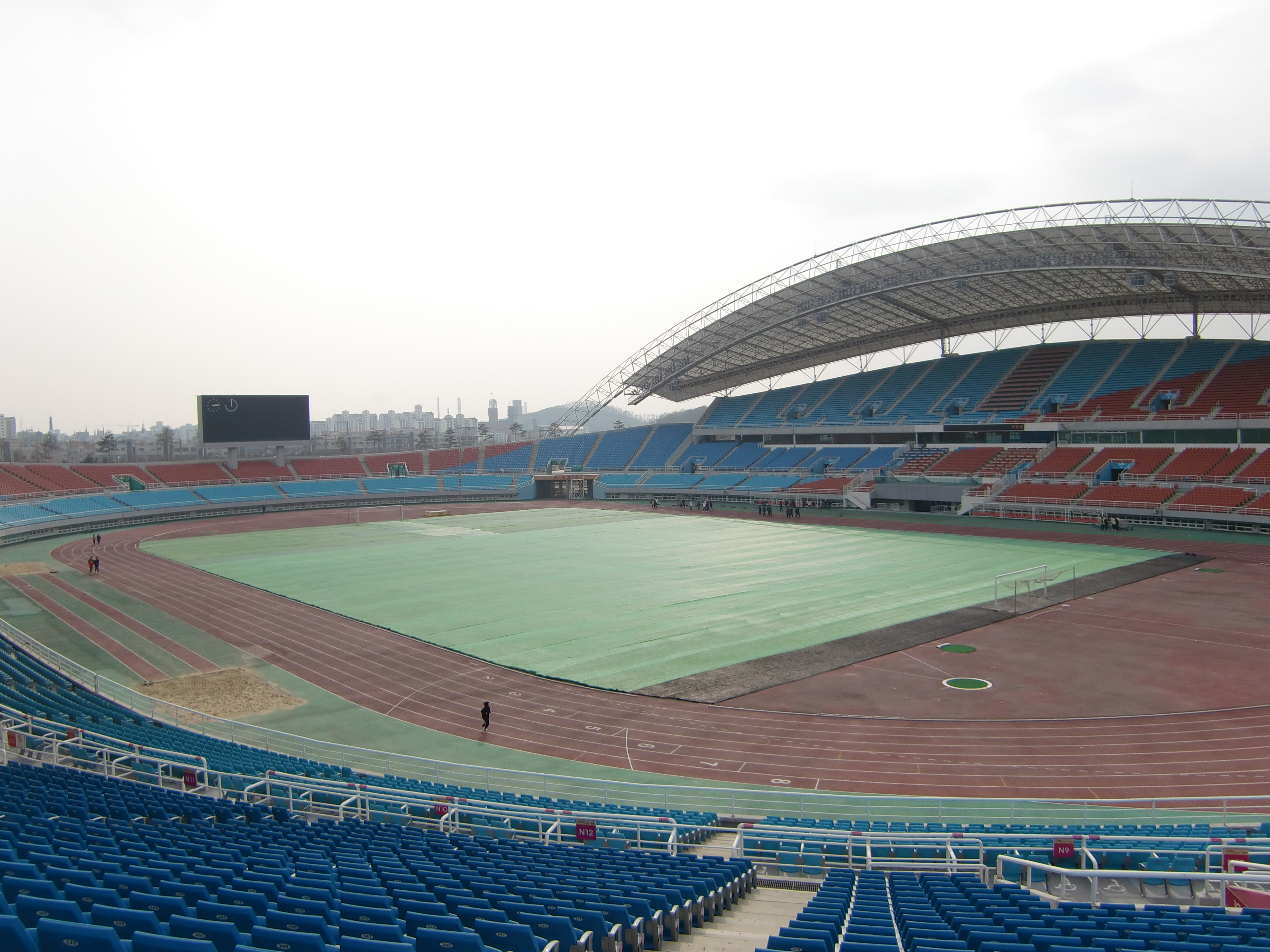 Ansan Wa Stadium.Ansan, Gyeonggi-do,South Korea.